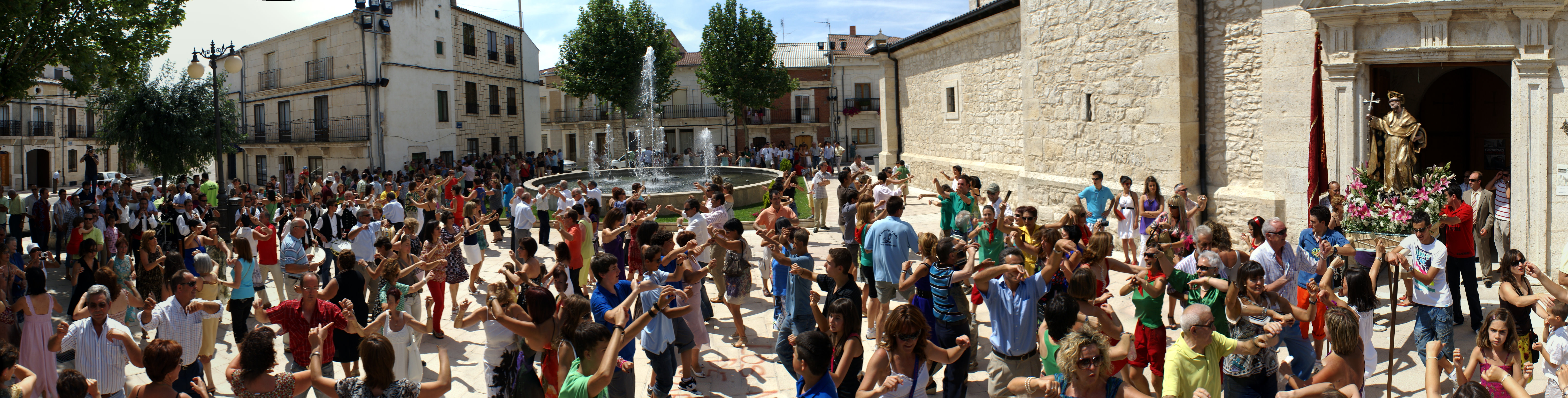 People dancing a jota for St. Dominic in Campaspero, Valladolid, Spain.